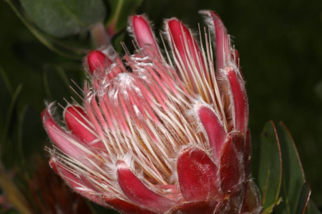 Protea venusta (red sugarbush) from the winter rain Karoo